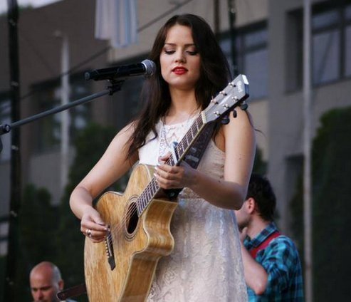 Kasia Popowska, Open Hair Festival, Sieradz 2014